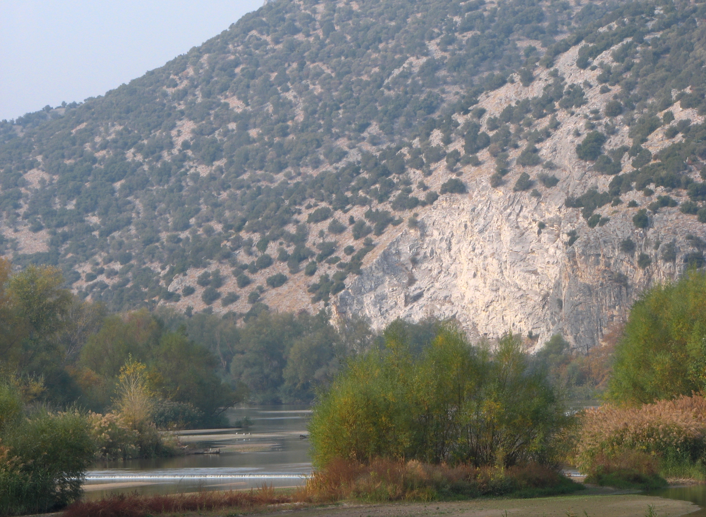 Nestos river near Xanthi, Thrace, Greece.